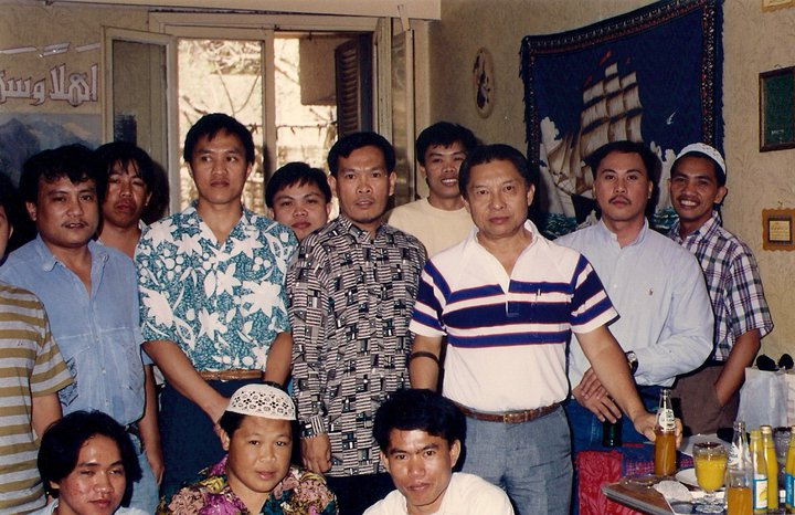 Late Governor then 1st District Lanao del Sur, Philippine Congressman Mamintal Adiong Sr during his visit in Egypt 1994.